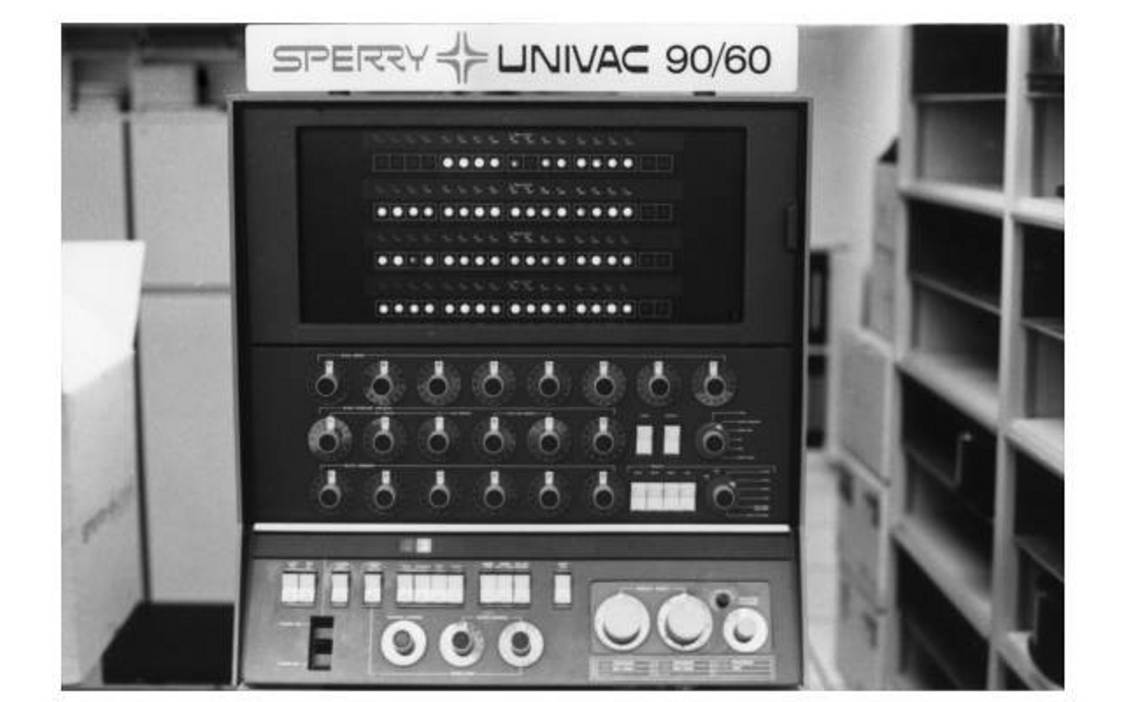 Photograph depicting the console of a UNIVAC 90/60 Mainframe Computer